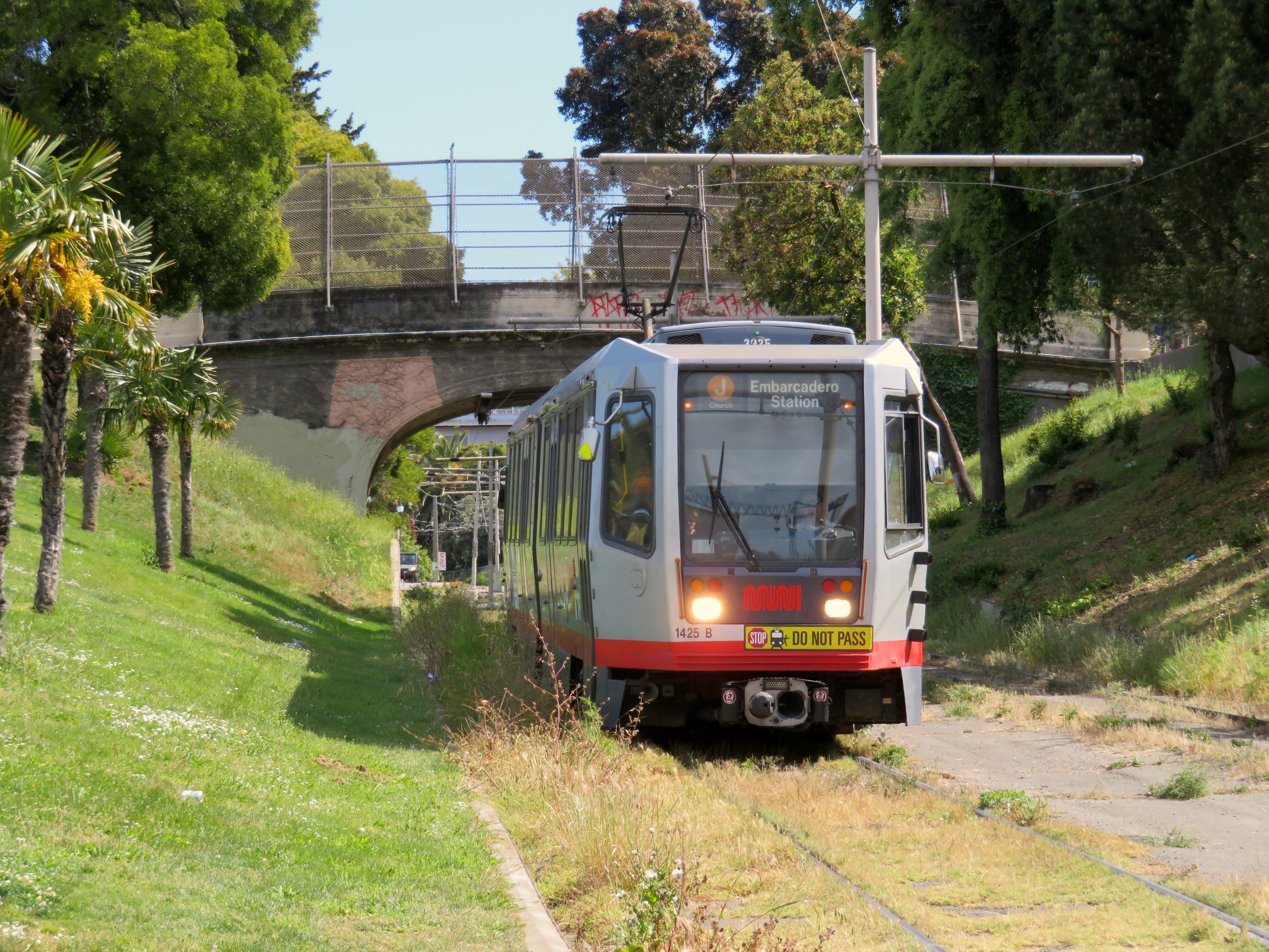 An inbound J Church train passes under the footbridge in Dolores Park in May 2018